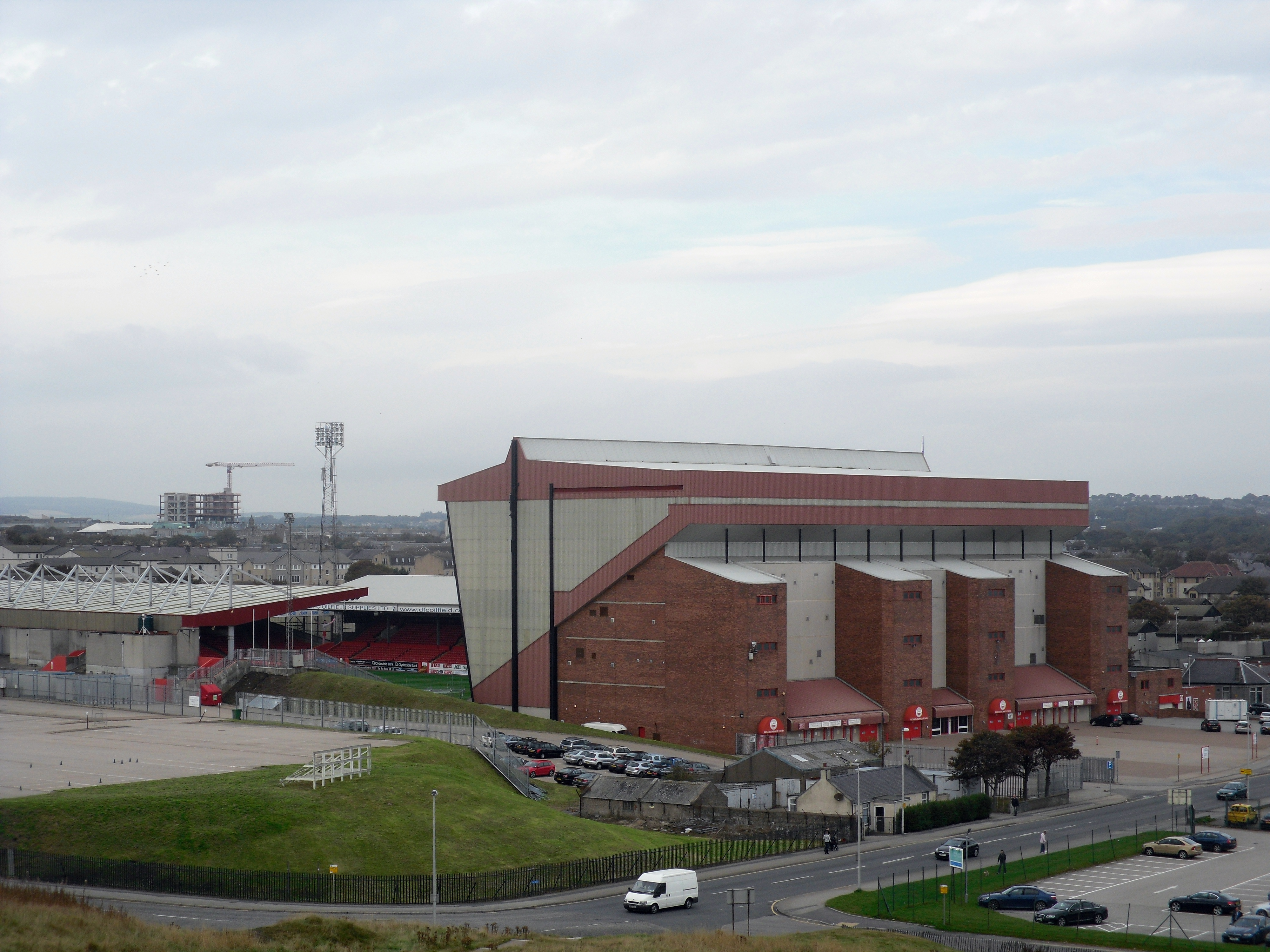 Looking Northwest to Pittodrie Stadium from Broad Hill, near to Old Aberdeen, Aberdeen, Great Britain.